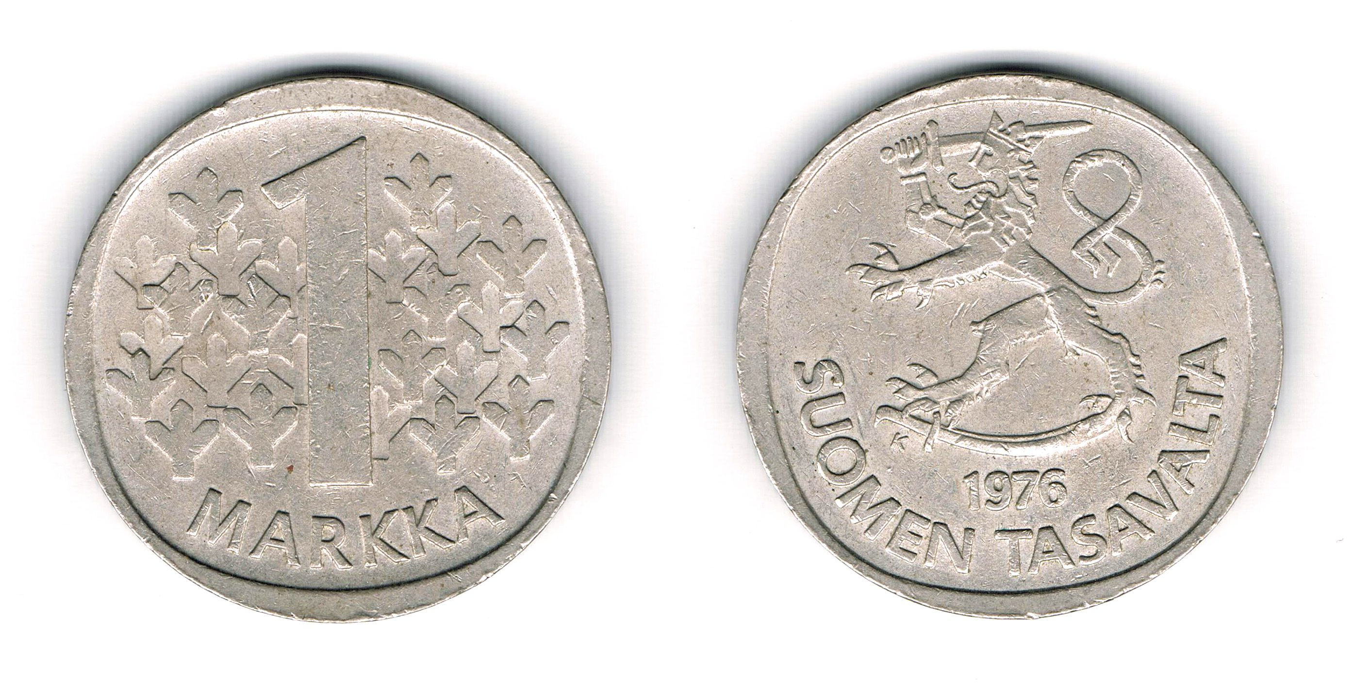 Finnish markka coin from 1976